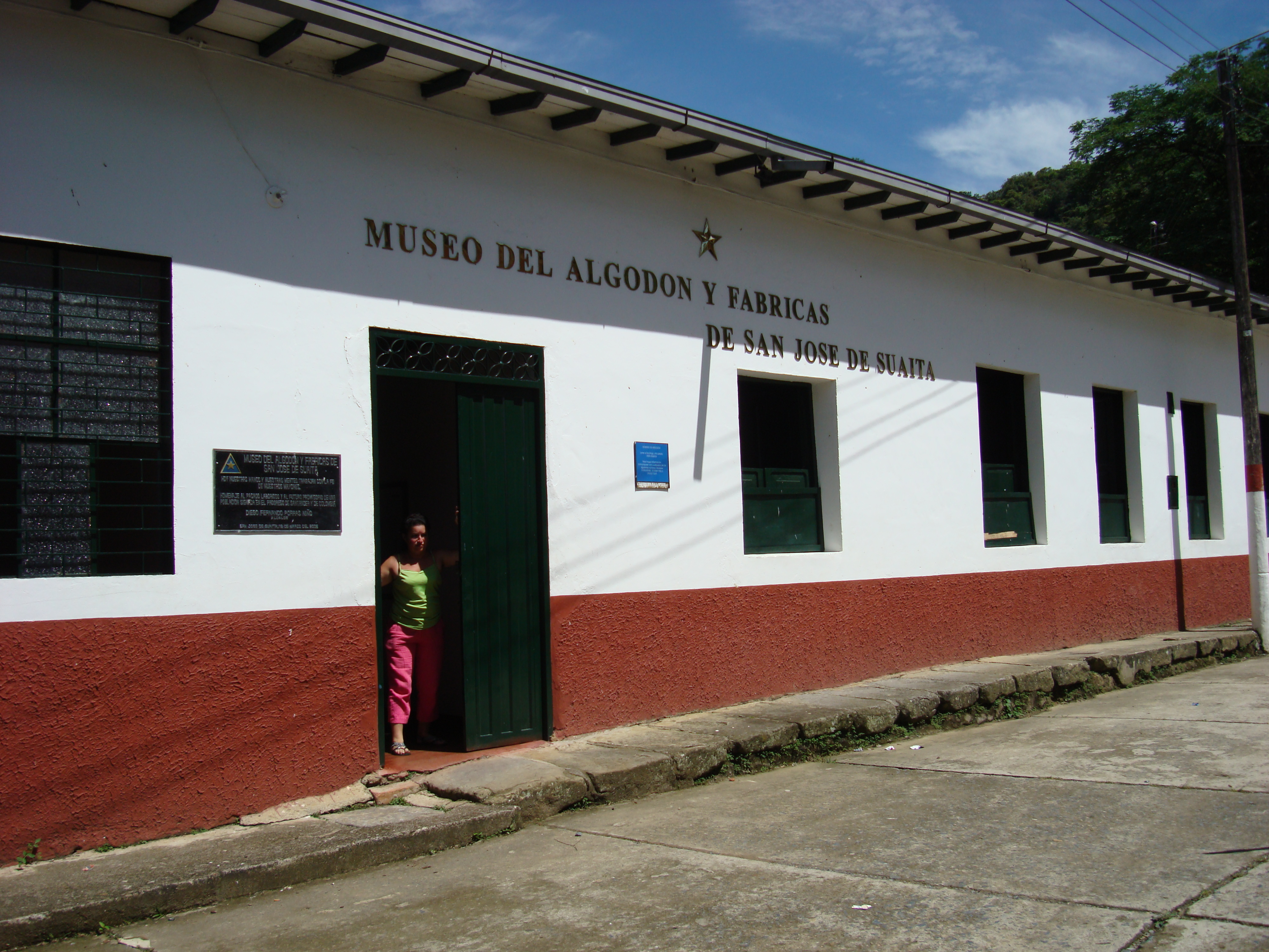 Facade of the San Jose de Suaita Cotton Mill Museum — in San José de Suaita, Colombia.